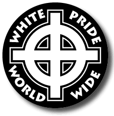 Stormfront (website) coat of arms featuring a variation of the Celtic cross or Sun cross and the motto "white pride, world wide"